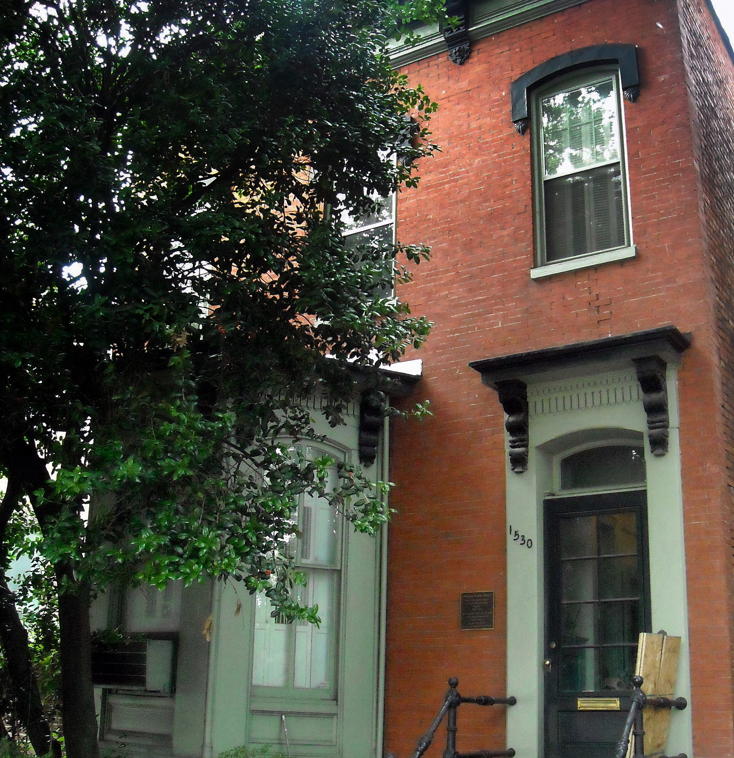 The Alma Thomas House located at 1530 15th Street, NW in the Logan Circle neighborhood of Washington, D.C. Built in 1875, the Italianate row house was the residence and studio of noted African-American artist Alma Thomas (1892-1978). The building is listed on the National Register of Historic Places and is a contributing property to the Greater Fourteenth Street Historic District.